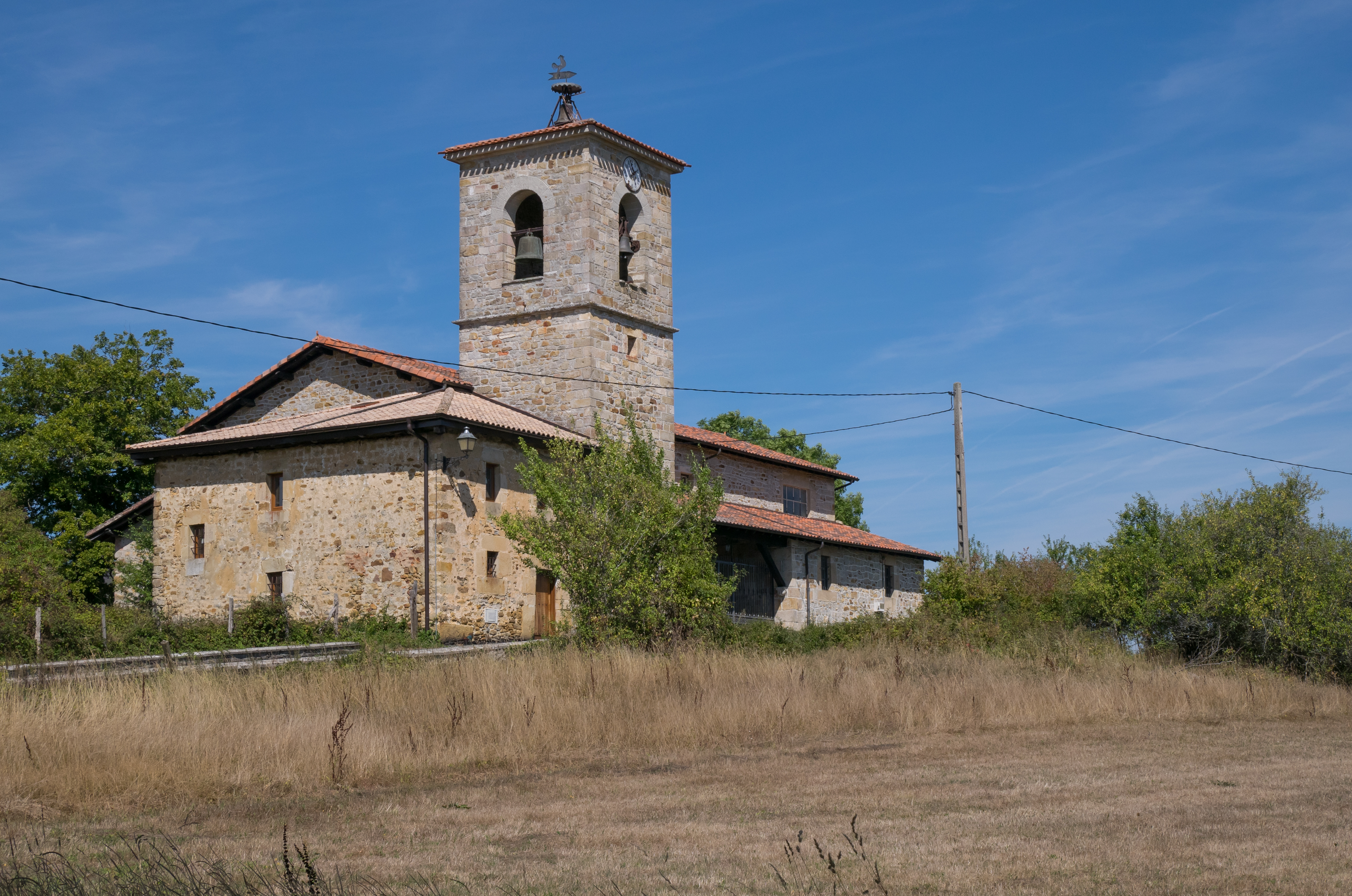 Chapel of San Antonio in Murua. Álava, Basque Country, Spain